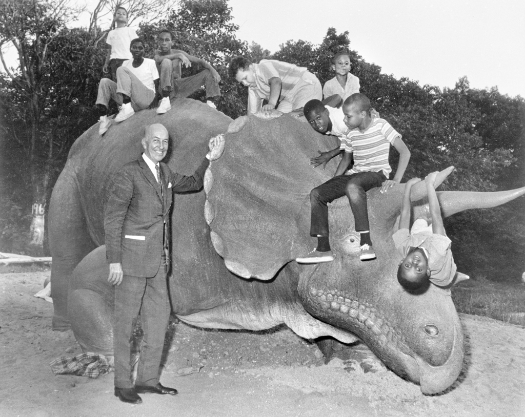 Secretary S. Dillon Ripley (1964-1984) and unidentified children with "Uncle Beazley," the dinosaur (Triceratops) used in the film "The Enormous Egg," at the opening of the Anacostia Neighborhood Museum on September 15, 1967. Uncle Beazley was placed in the parking lot adjoining the Carver Theater, the site of the first Anacostia Museum. The museum, located at 1901 Fort Place, S.E., Washington, D.C, is now known as the Anacostia Community Museum. Uncle Beazley was later moved to the Mall in front of the National Museum of Natural History and then to the National Zoological Park.